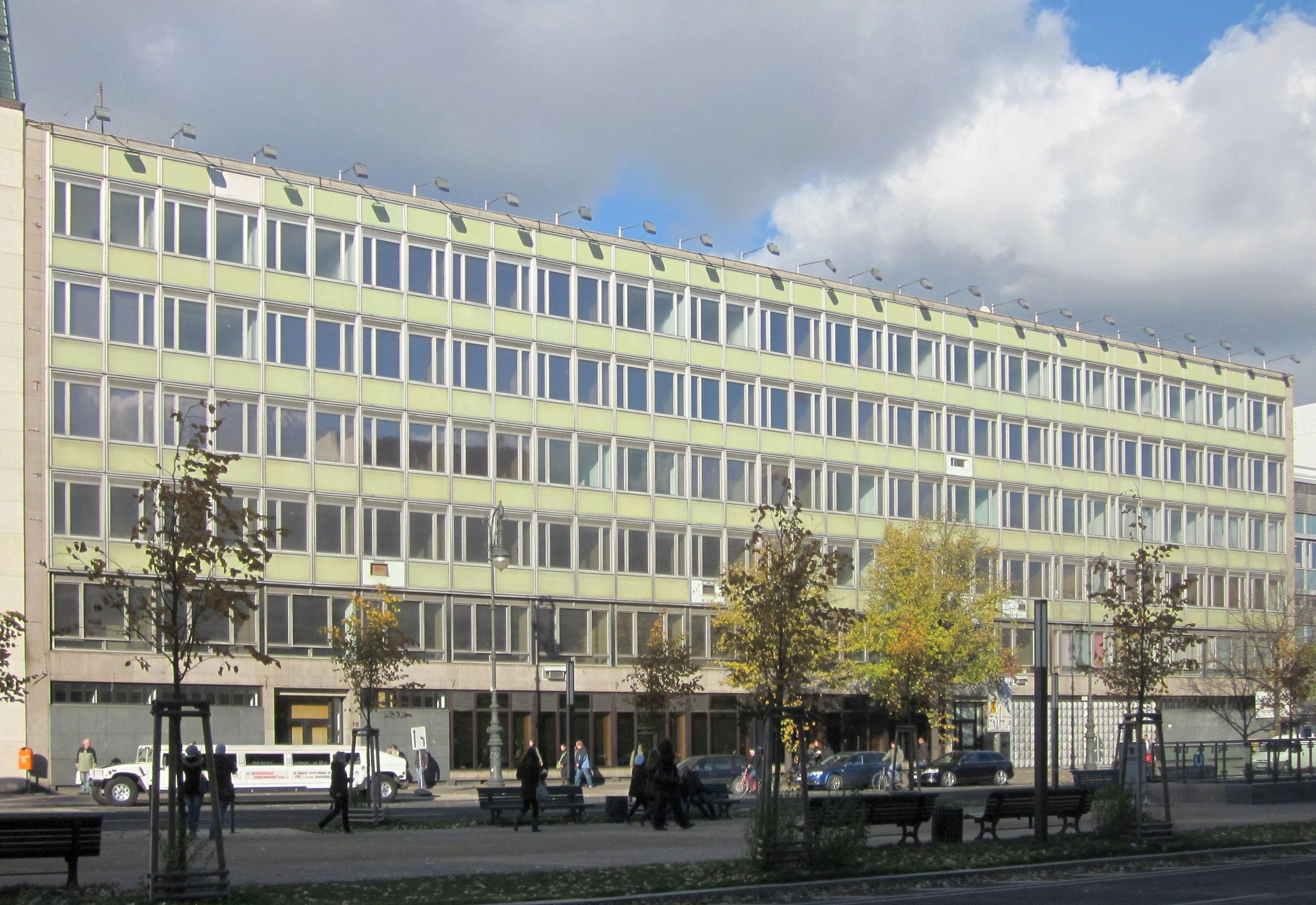 The Polish Embassy, Unter den Linden 72/74, in Berlin. The building was constructed from 1963 to 1964 by the Kollektiv Emil Leybold and Christian Seyfarth. It is part of the protected historic buildings area Dorotheenstadt.